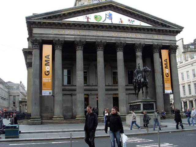 Gallery of Modern Art Viewed from the corner of Queen Street and Ingram Street.